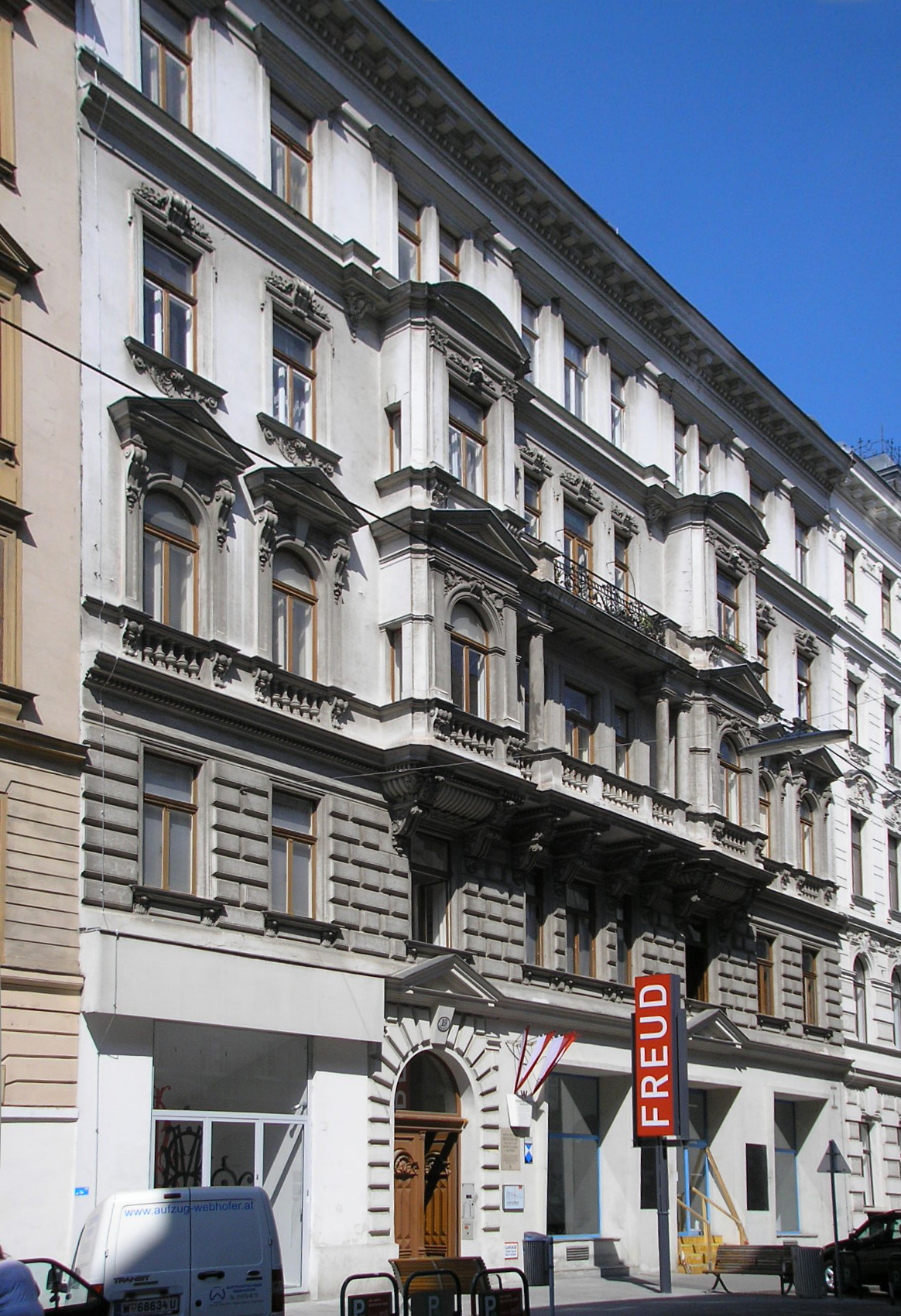 19, Berggasse in Vienna, Sigmund Freud's house.